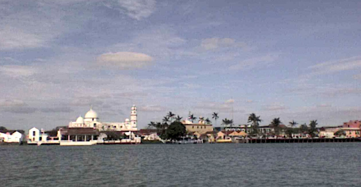 See of Tlacotalpan from Papaloapan river